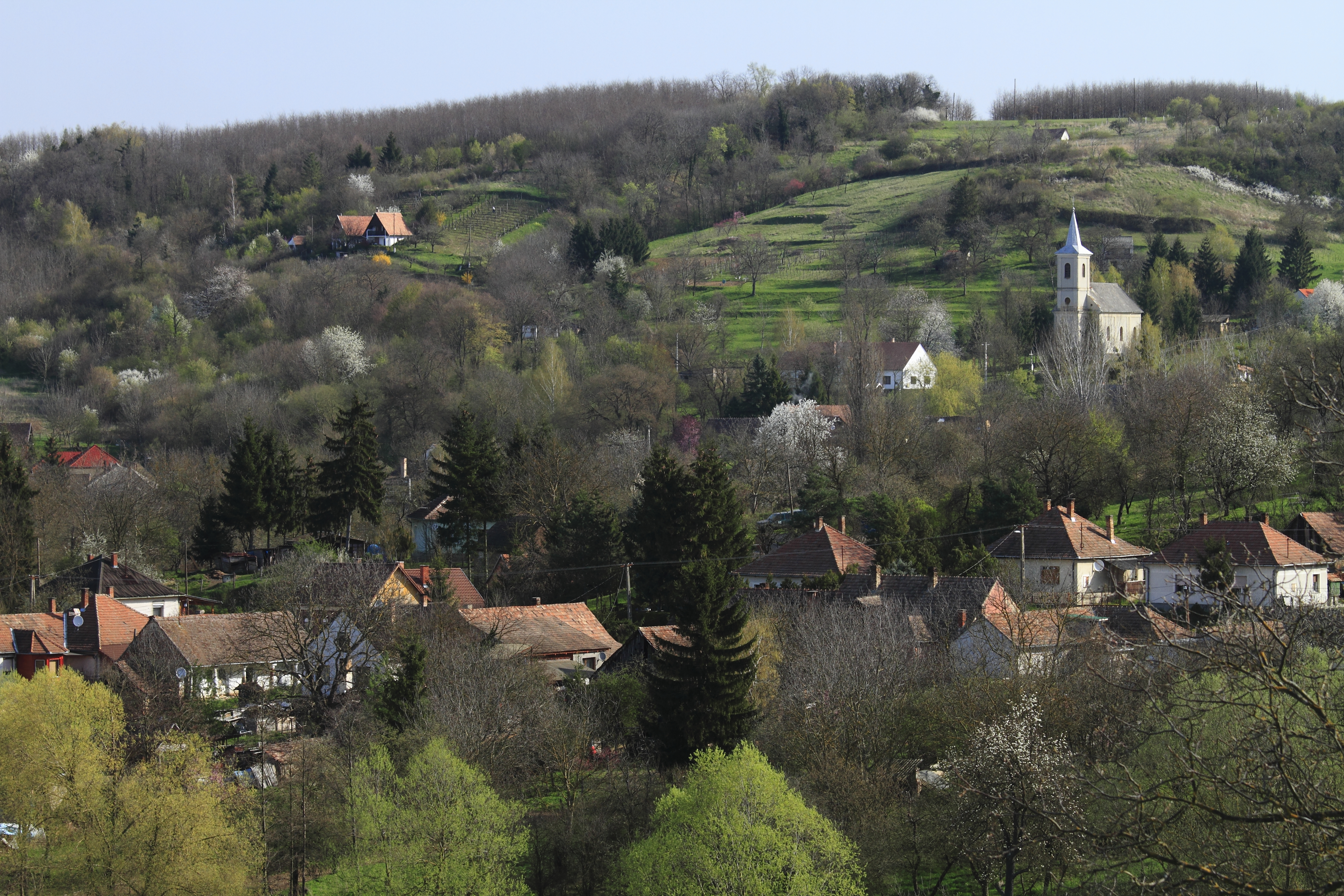 View of Simonfa (Somogy megye, Hungary) from Road 67 in 2016